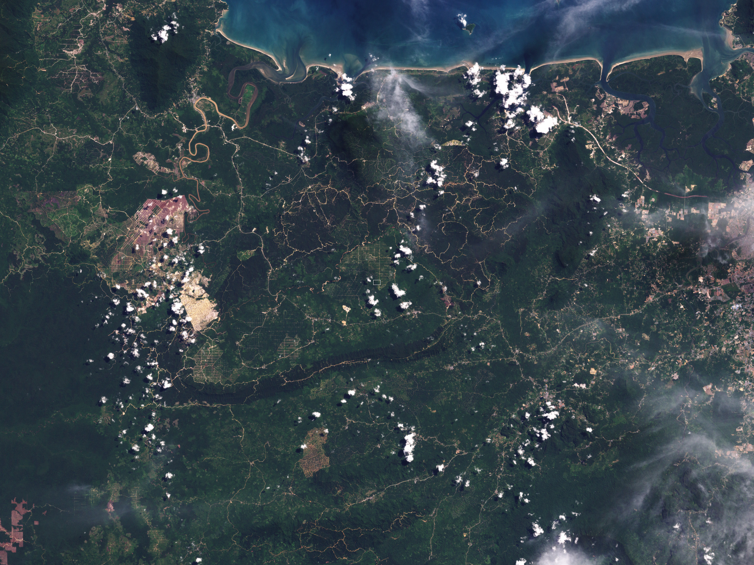 The image has a resolution of 30 meters per pixel. Spanning about 22,000 meters, this image shows the difference between plantation and intact forest in part of Malaysian Borneo. The greens of the plantation are paler than those of the surrounding forest, and paths or roads criss-cross the groves. The image reveals the overall extent of land-cover change throughout the region.